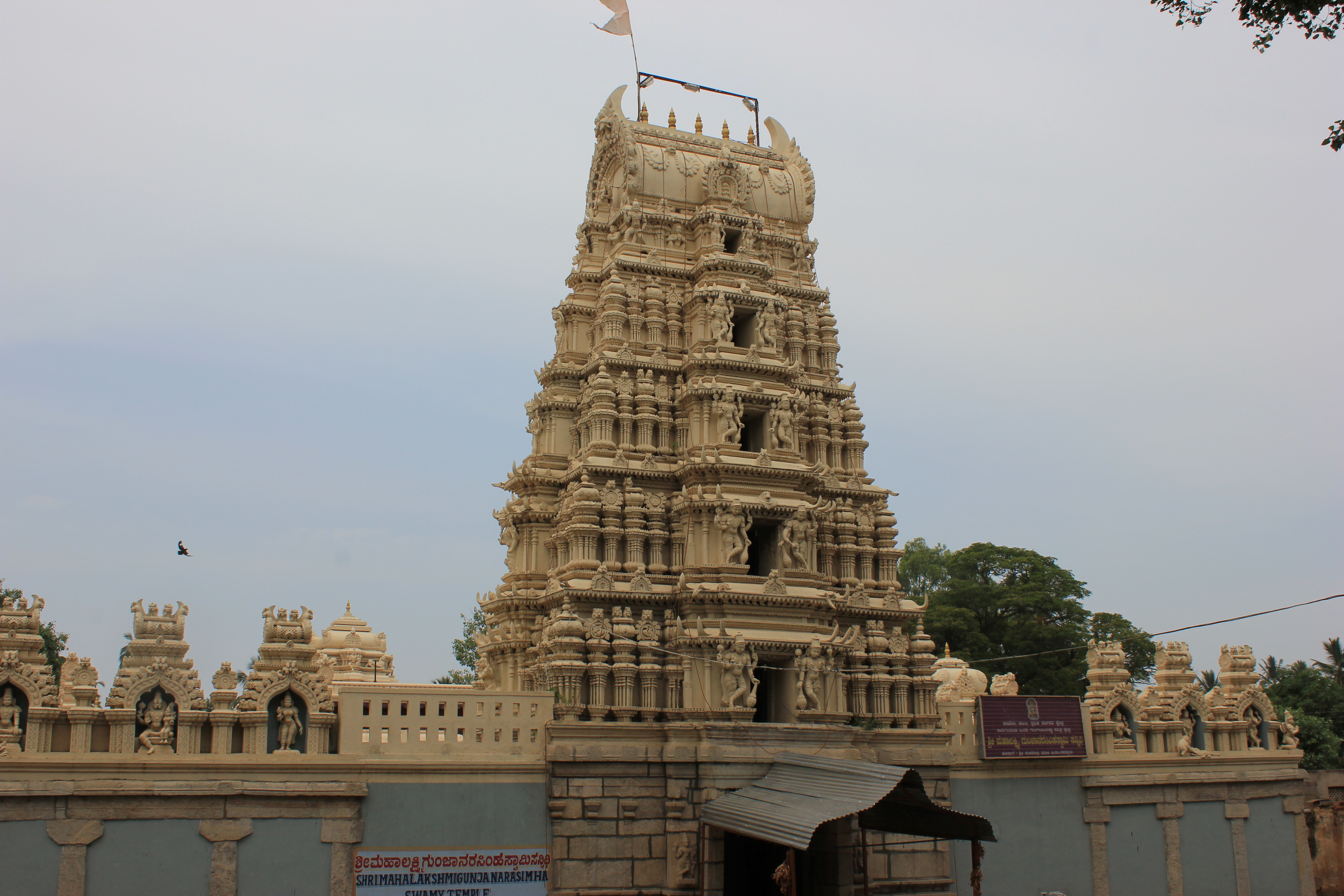 Gunjanarasimhaswamy temple at Tirumakudal Narasipura, Mysore district, Karnataka state, India